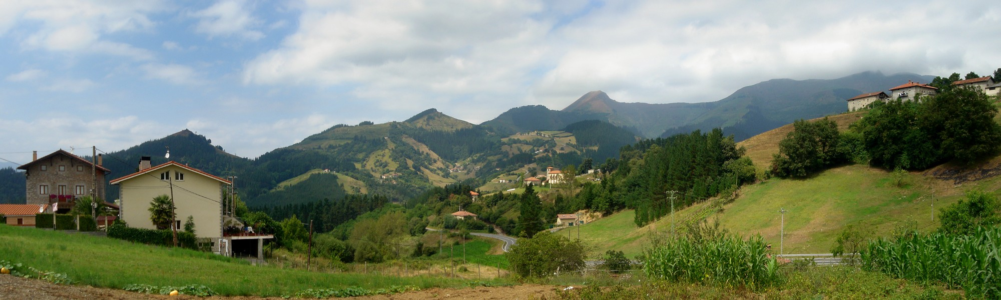 Landscape of Okondo (Araba, Basque Country, Spain)